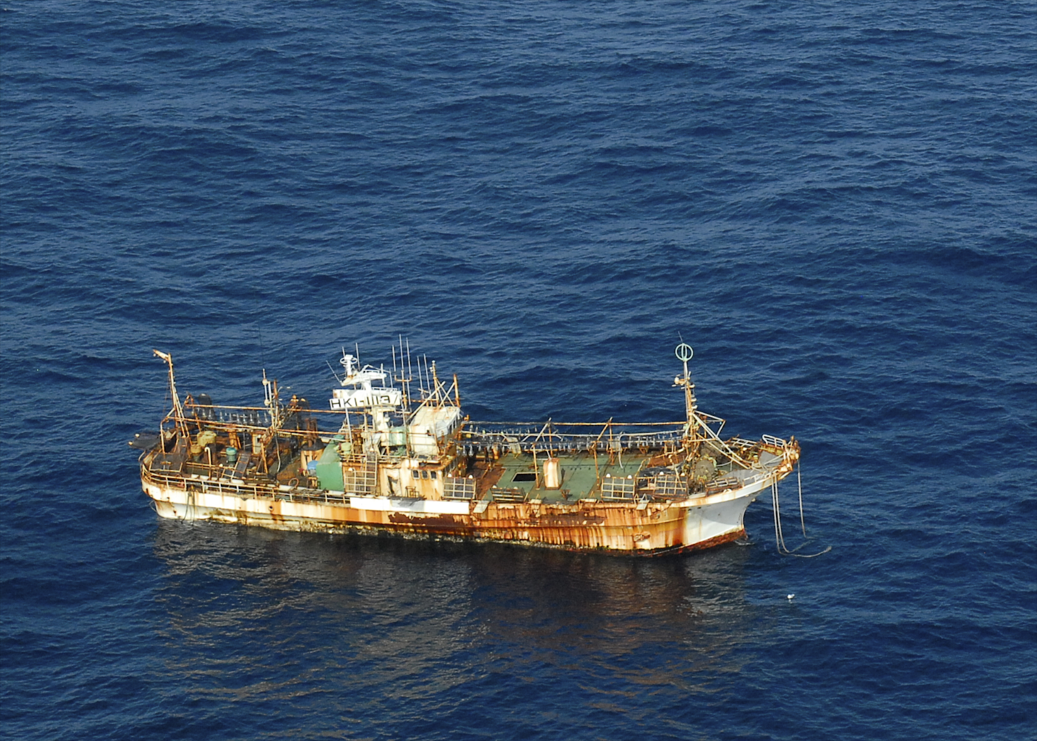 GULF OF ALASKA - The Japanese fishing vessel Ryou-Un Maru drifts northwest approximately 170 nautical miles southwest of Sitka April 4, 2012. The vessel, confirmed to be unmanned, was set adrift in 2011 by the earthquake and subsequent tsunami in Fukushima, Japan. U.S. Coast Guard photo by Petty Officer 1st Class Sara Francis.